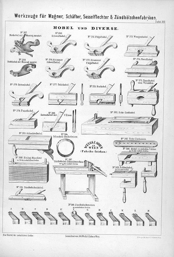 Woodworking planes